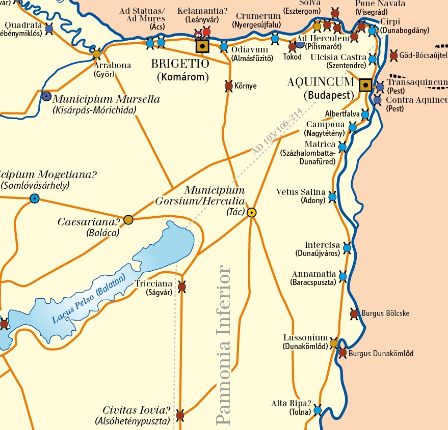 Gorsium/Herculia